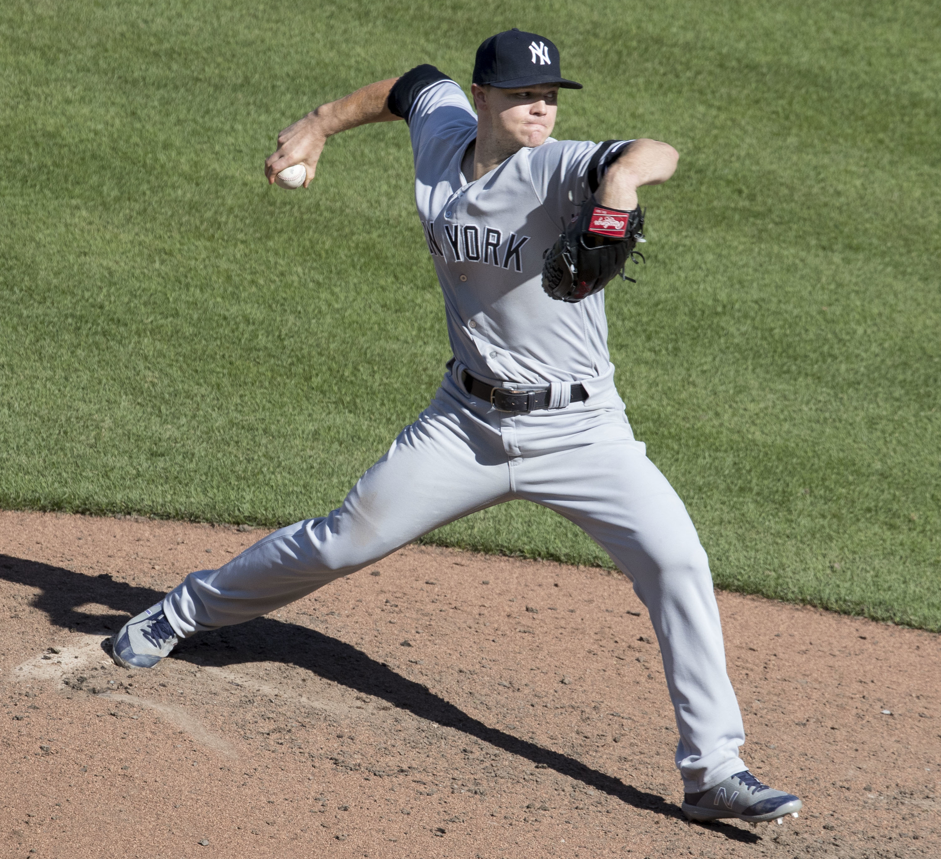 Starting pitcher Sonny Gray of the New York Yankees in a game against the Baltimore Orioles at Oriole Park at Camden Yards on September 7, 2017 in Baltimore, Maryland.